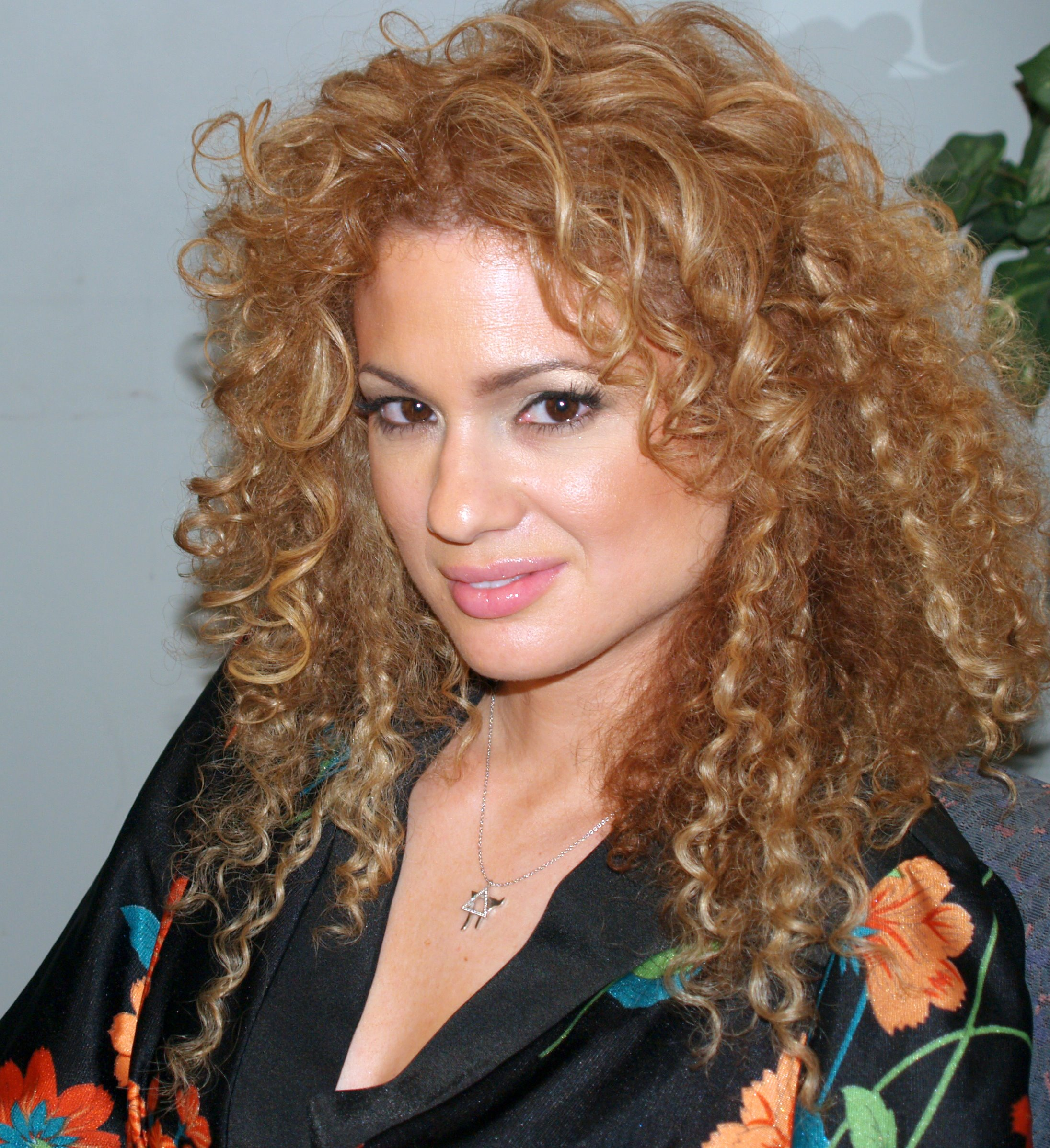 Miri Ben-Ari, the "Hip Hop Violinist", at the Apollo Theater for Israel's 60th Anniversary.